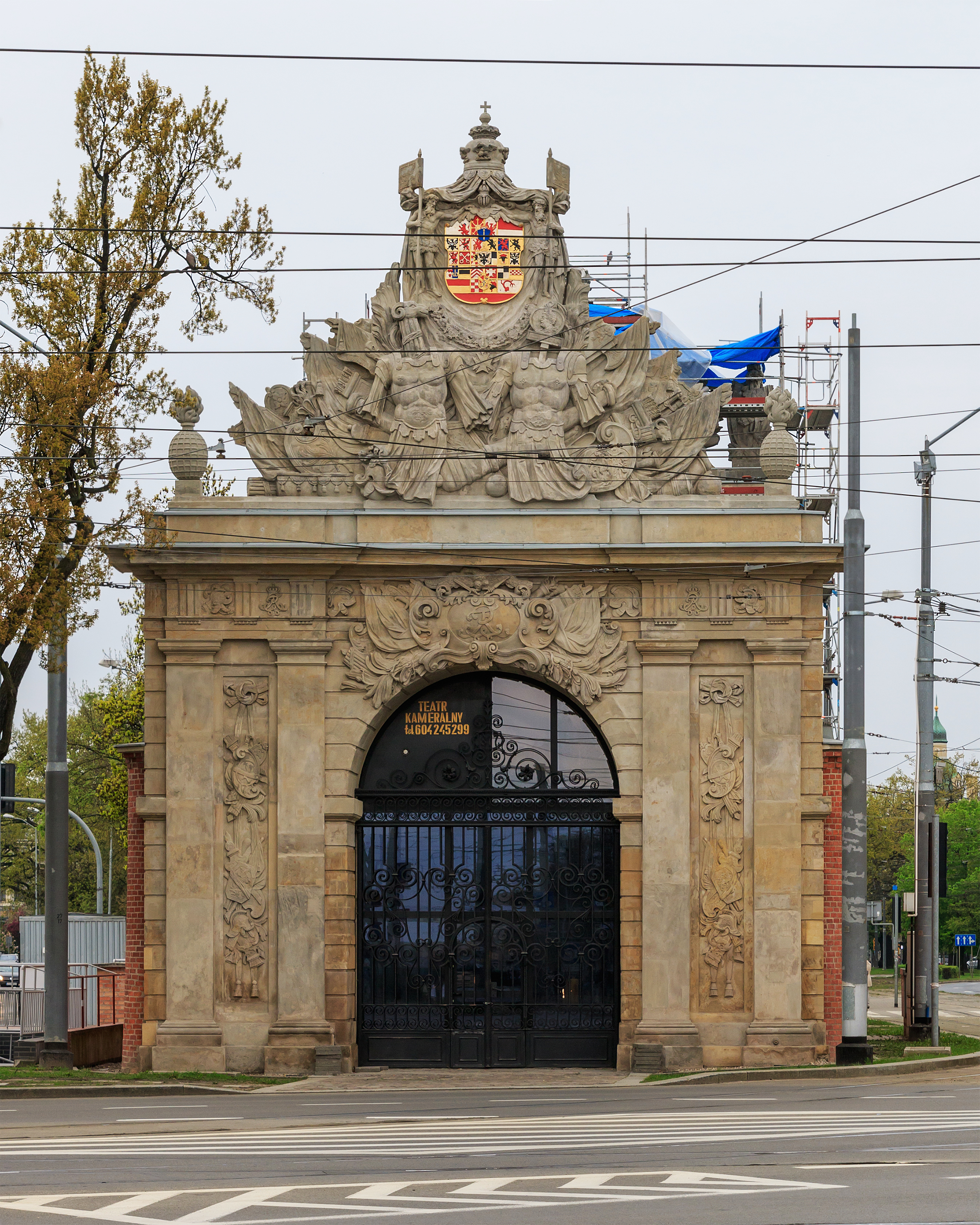 Harbour Gate in Szczecin (Poland)